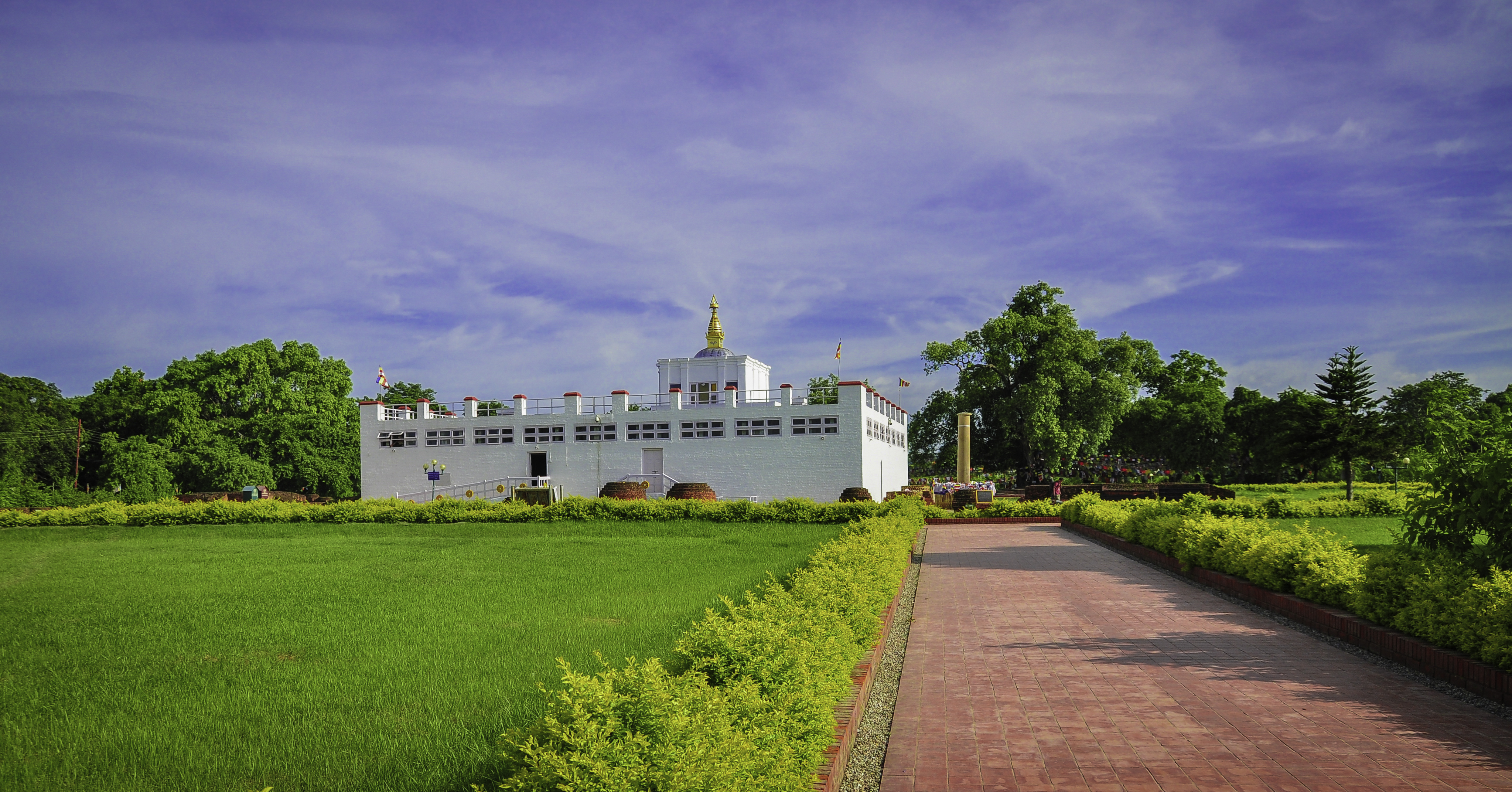 Mayadevi Temple in Lumbini. This is the main temple.